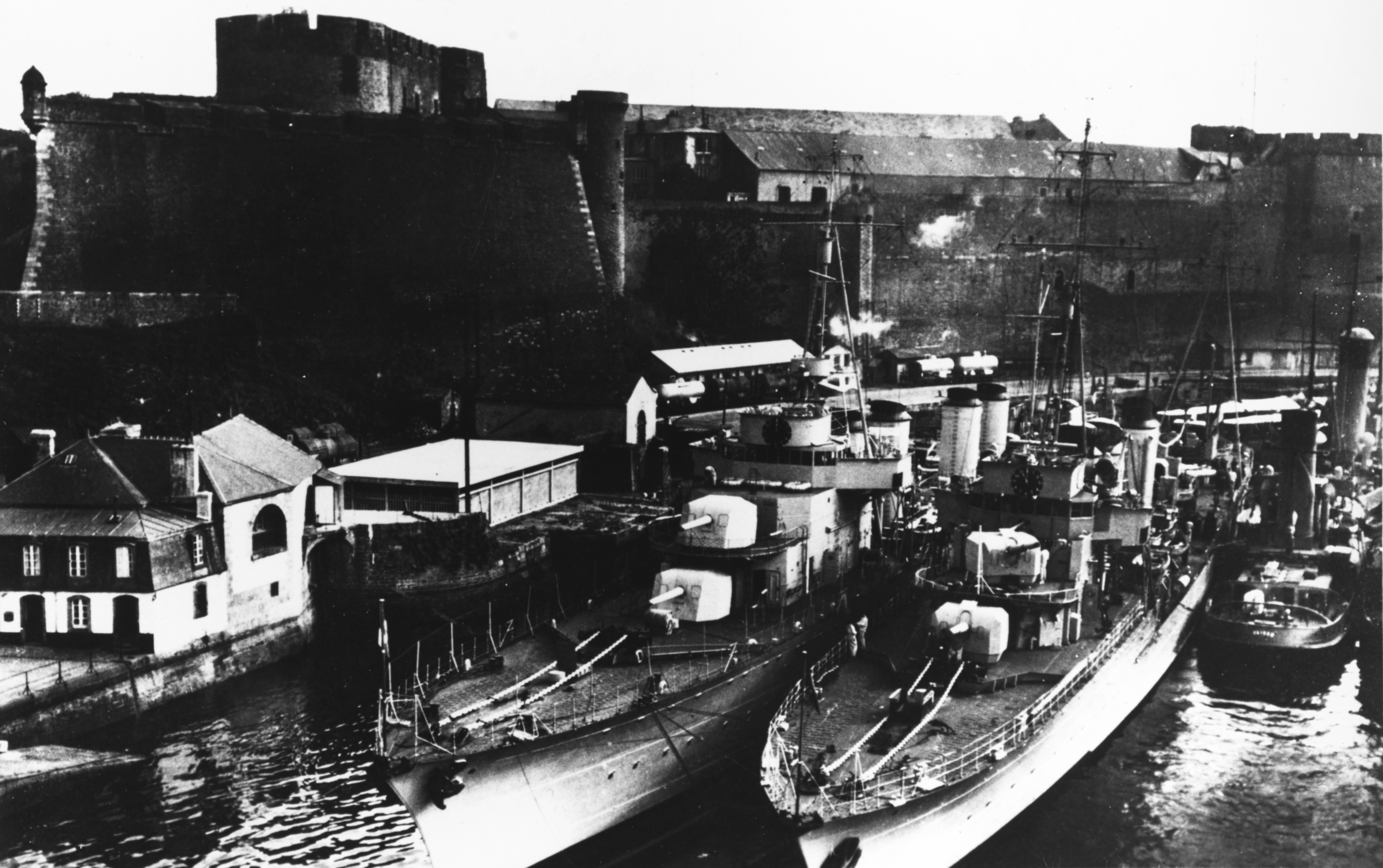 The French destroyer Bison, at left, alongside Lynx in the Penfeld River at the Brest Arsenal, France, sometime between 1 December 1933 and 1 September 1934. Note the difference in size and appearance between Bison's 138 mm guns and the 130 mm guns mounted on Lynx. The small tug at right appears to have the name Faisan on her stern.